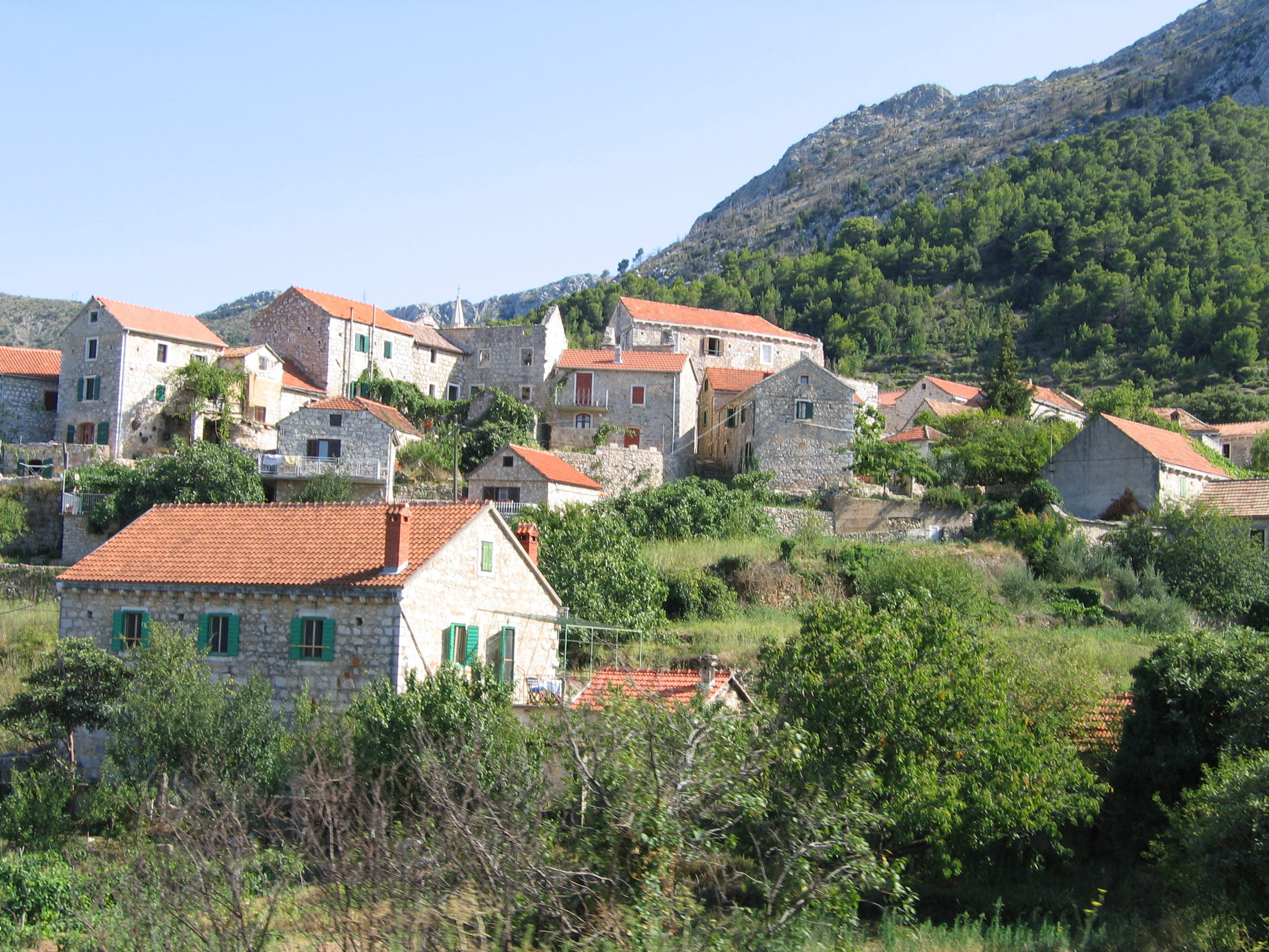 View of Pitve village, Hvar